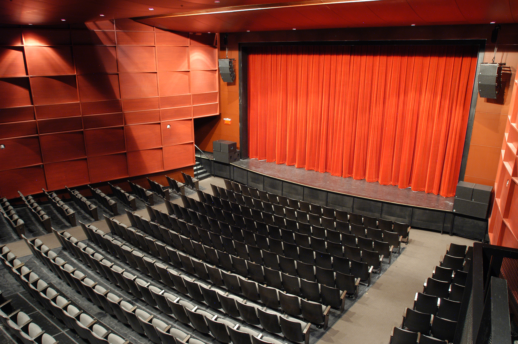 Concert Hall Desjardins of the Centre des arts Juliette-Lassonde.